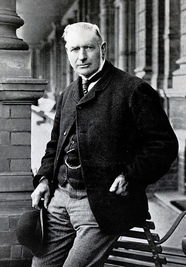 Sport, Cricket, Circa 1895, Thomas Hearne played for Middlesex from 1859-1875 and later in his life he became Superintendent of the Ground Staff at Lords, until 1897